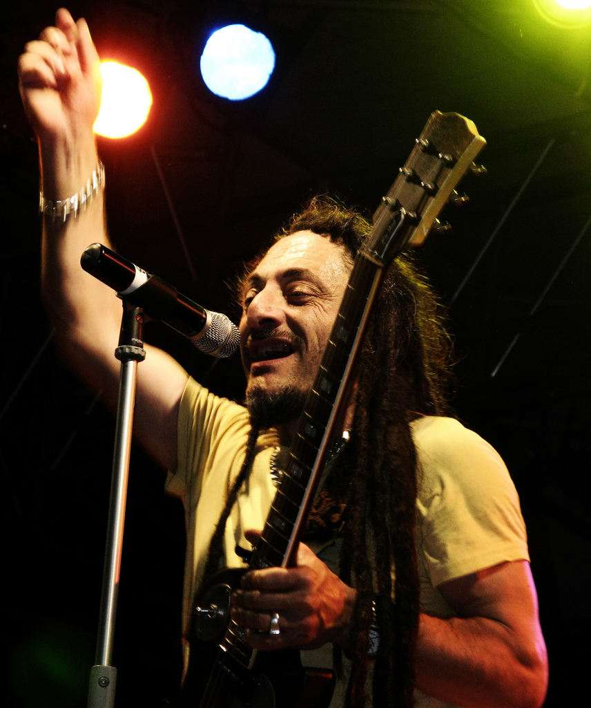 The italian singer and guitarist Bunna, member of Africa Unite crew.